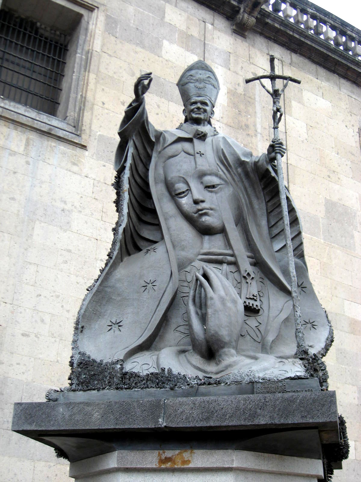 Statue of Pope John Paul II with overimposed image of the Virgin of Guadalupe, made entirely with keys donated by Mexicans. The plaque states that this was done to show that the Mexican people had given the Pope the "key to their hearts". The sculpture is by Artist Francisco Cárdenas Martínez, the base on the bottom right reads "Pancho Cárdenas" ("Pancho" is a term of endearment for the name "Francisco", similar to "Bob" for a "Robert"). It stands near side entrance to the Metropolitan Cathedral of Mexico City